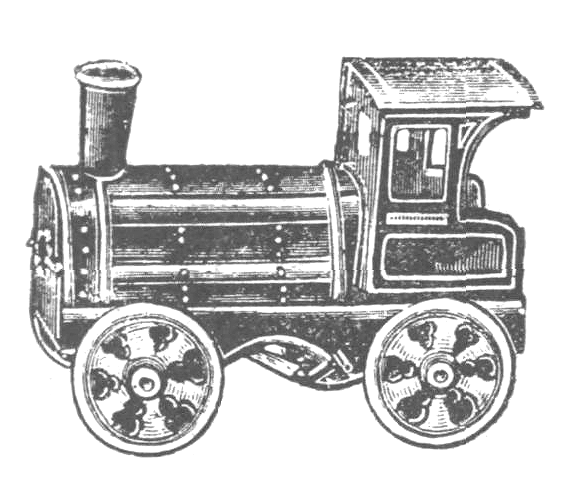 A tin toy advertised in a 1900 wholesale catalogue